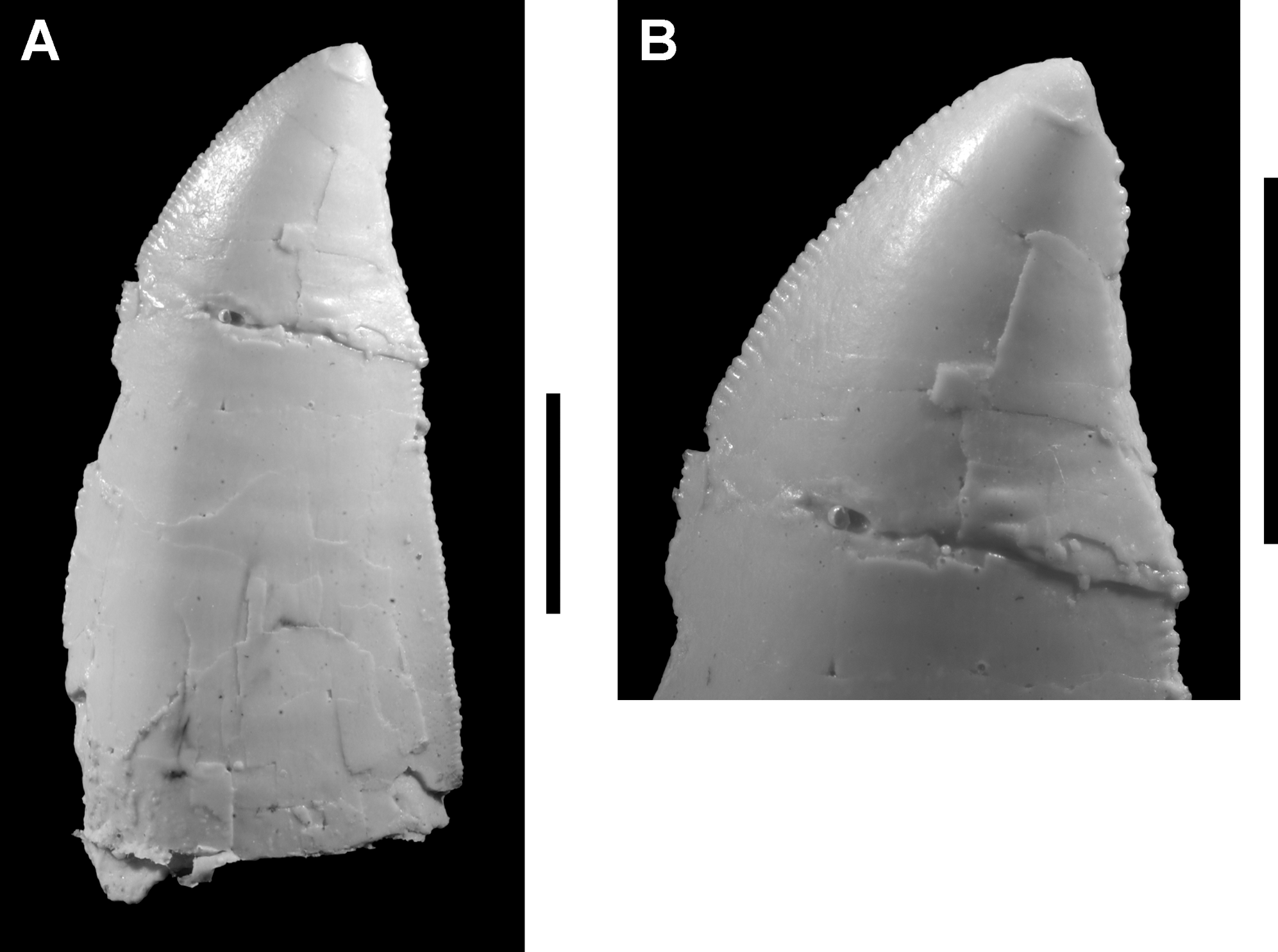 Tooth of the theropod Aerosteon riocoloradensis. Isolated crown from the maxillary or dentary series (MCNA-PV-3137; cast). (A)-Side view of crown. (B)-Enlarged view of crown tip. Scale bars equal 1 cm.